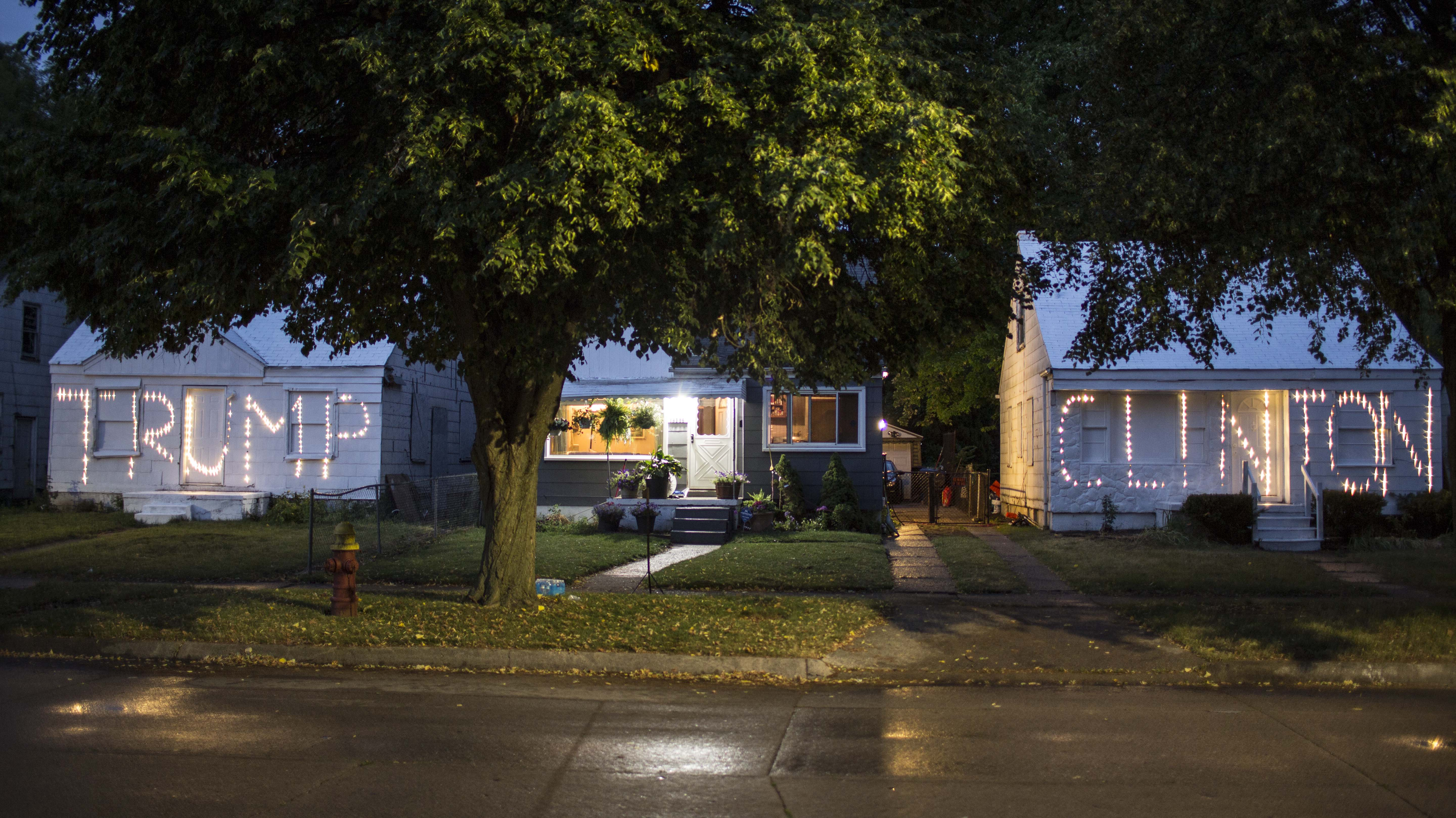 The Invitation